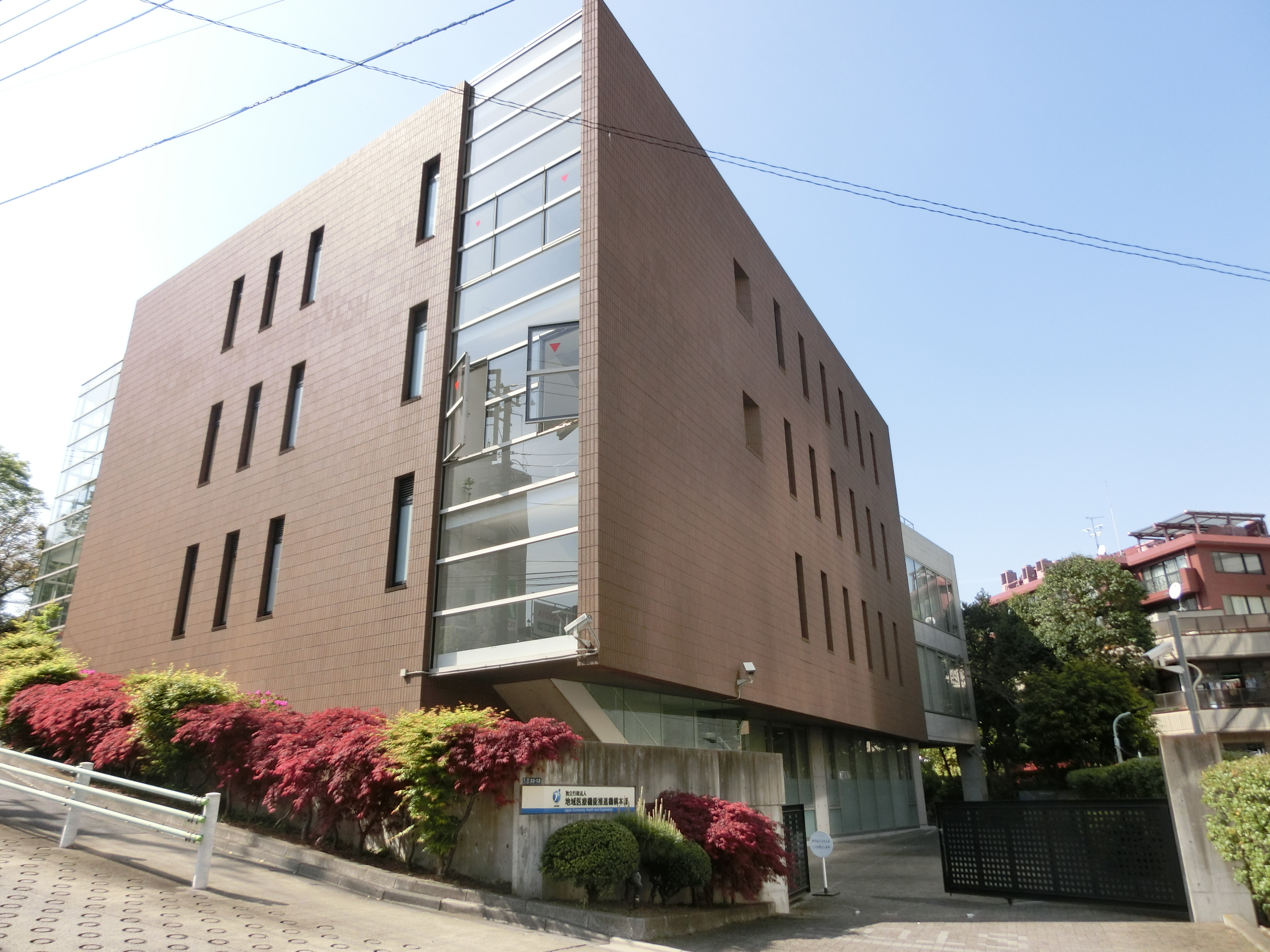 JCHO Headquarters